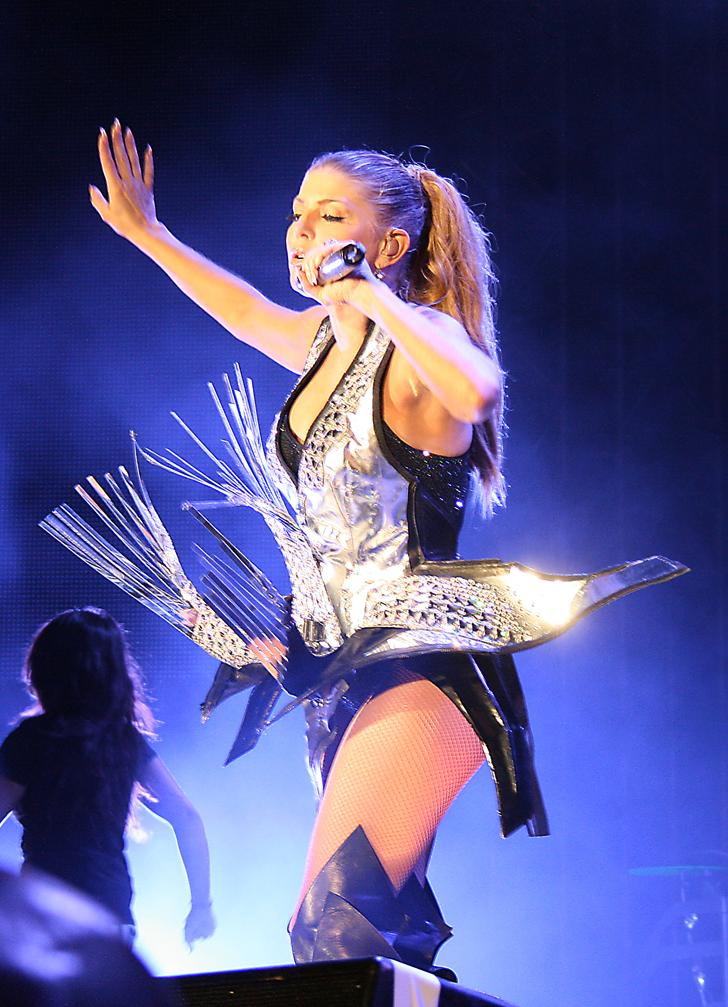 Fergie at Oracle OpenWorld